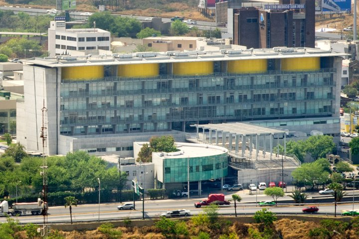 Escuela de Medicina y Ciencias de la Salud